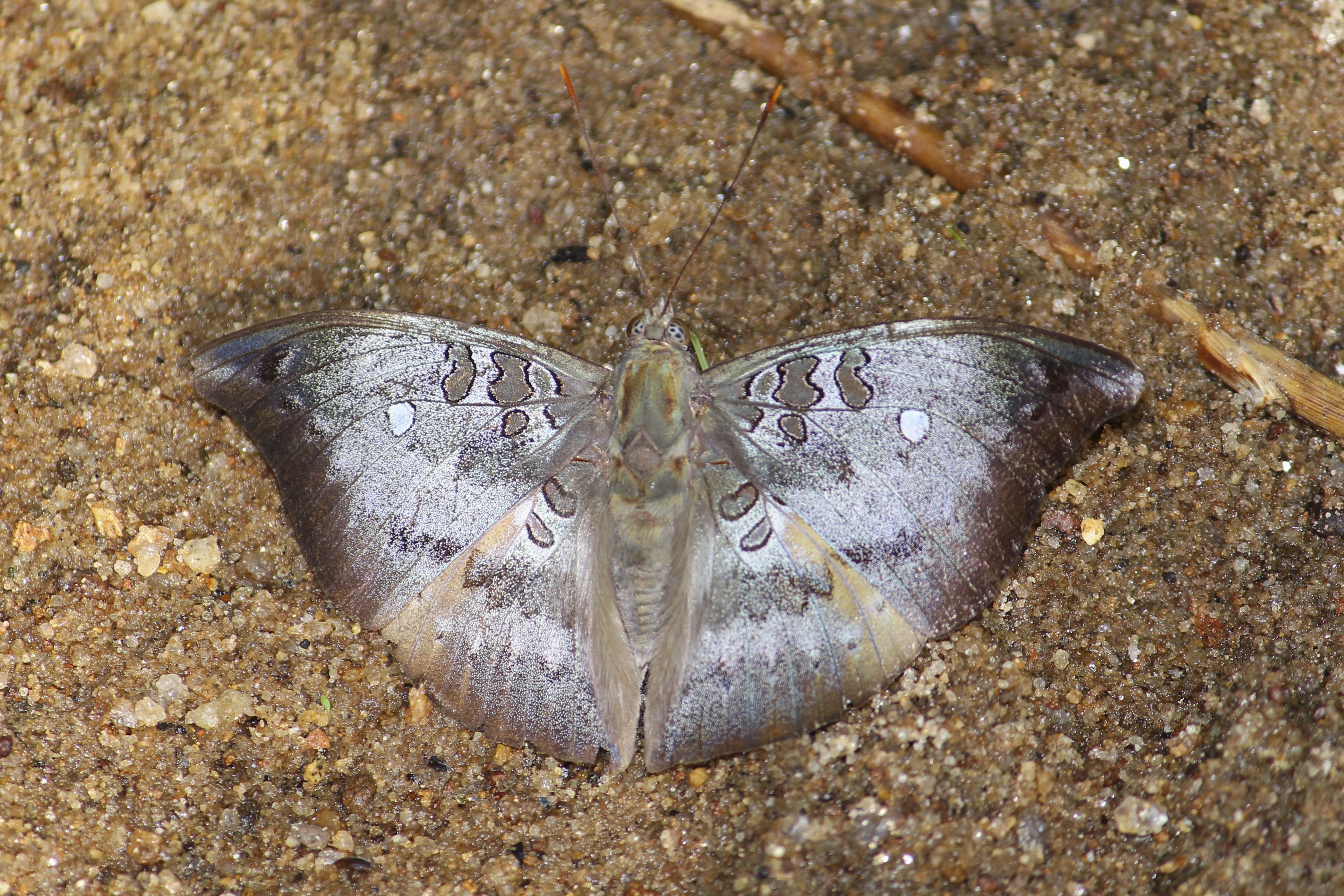 Open wing position mud-puddle of Euthalia anosia Moore, 1857 – Grey Baron . Specimen belongs to subspecies Euthalia anosia anosia Moore, 1857 – Assam Grey Baron. This species is legally protected in India under Schedule II of the Wildlife (Protection) Act, 1972. অসমীয়া: পাখি মেলা অৱস্থাত mud puddling কৰি থকা Euthalia anosia Moore, 1857 – Grey Baron পখিলা । এই নমুনাটো Euthalia anosia anosia Moore, 1857 – Assam Grey Baron উপ-প্ৰজাতিৰ অন্তৰ্গত ।